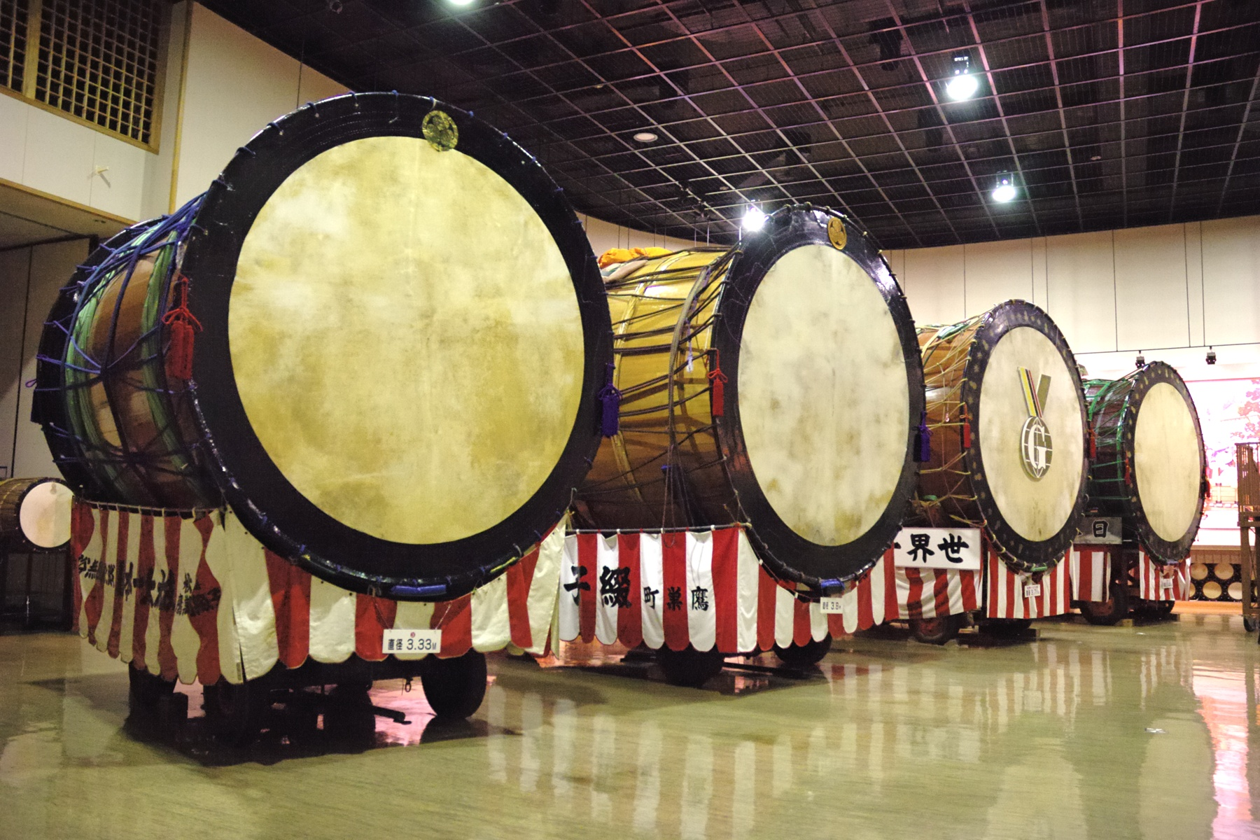 World's largest taiko (Japanese drum) displayed at Odaiko no Yakata (Great Drum Museum) at Michinoeki Takanosu